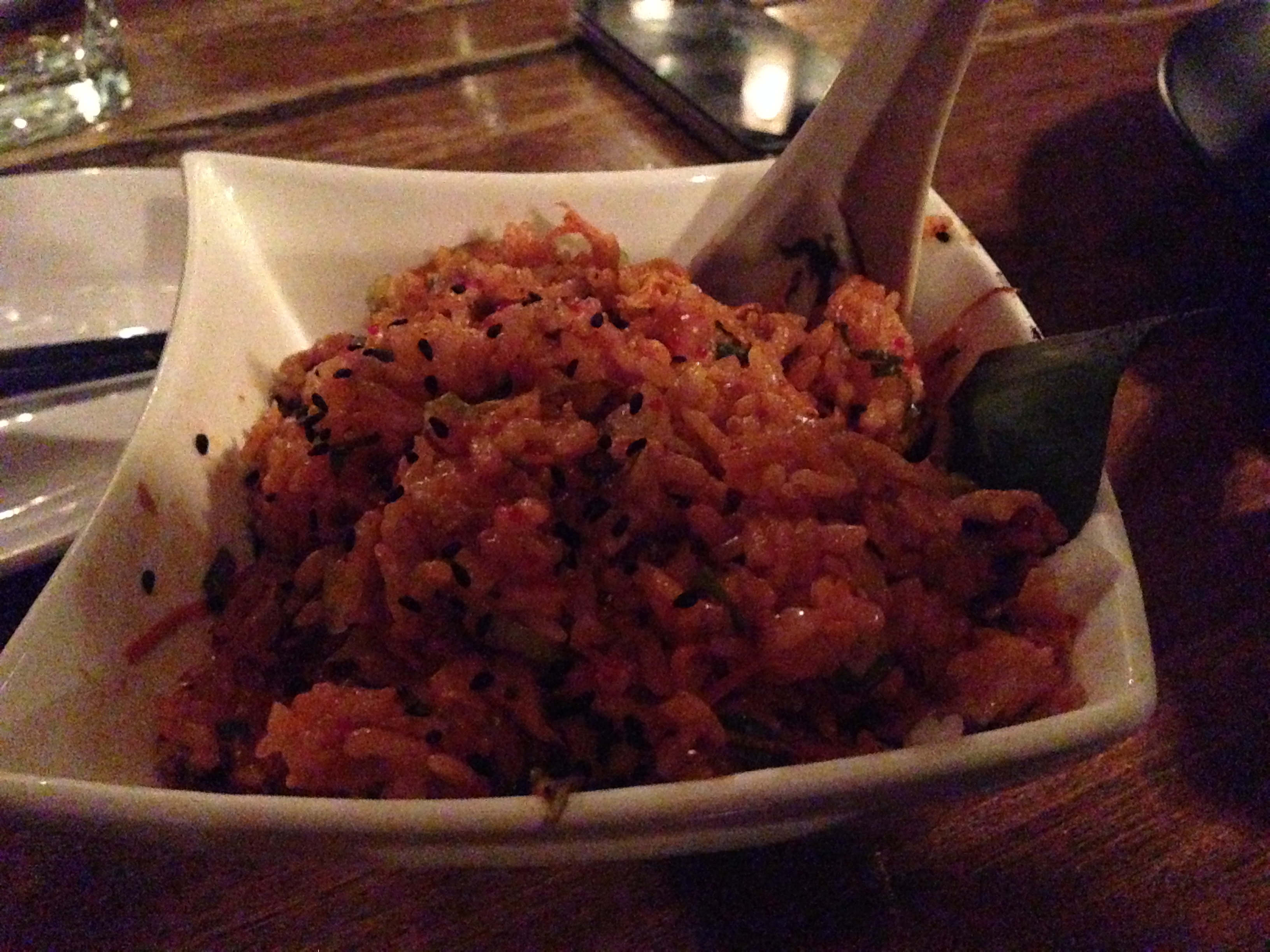 Popular food item available in many Korean restaurants.